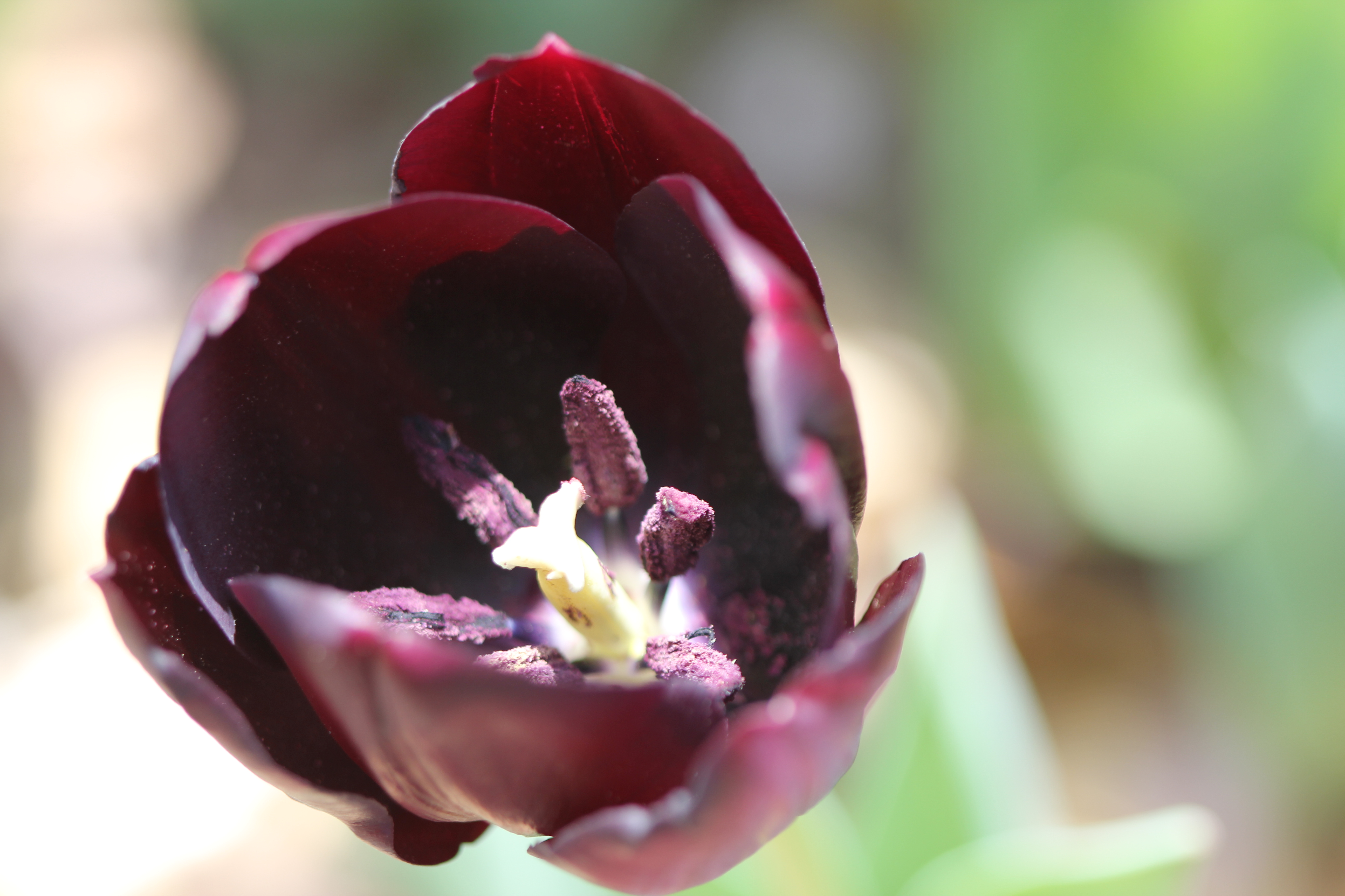 Queen of night Tulipa